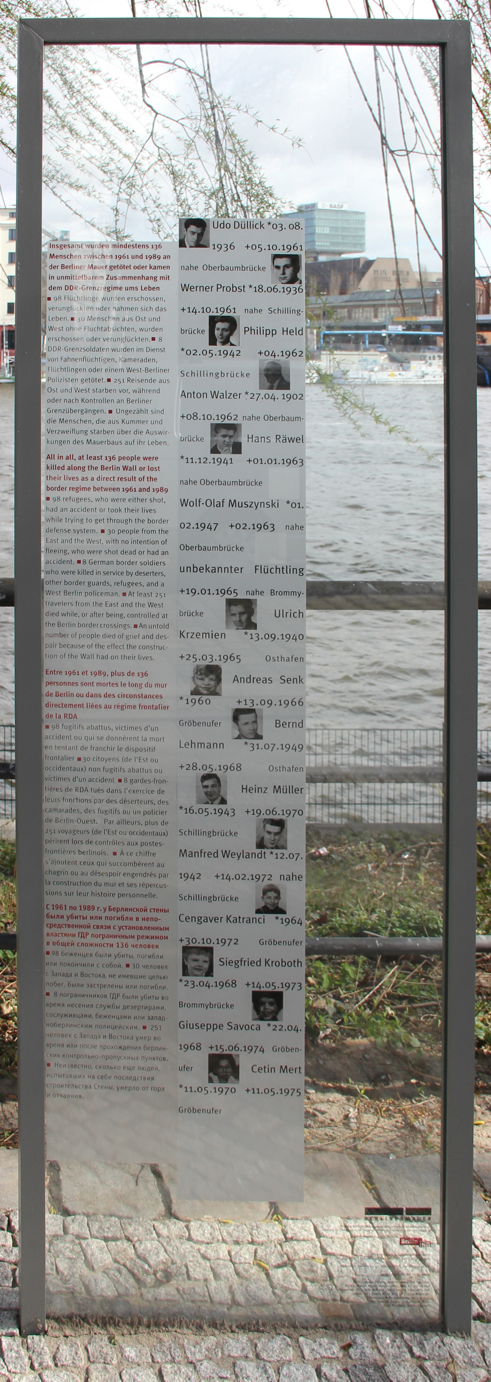 Memorial plaque, Maueropfer, May-Ayim-Ufer, Berlin-Kreuzberg, Germany